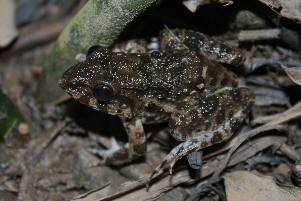 Found in a marshy area next to mangroves.